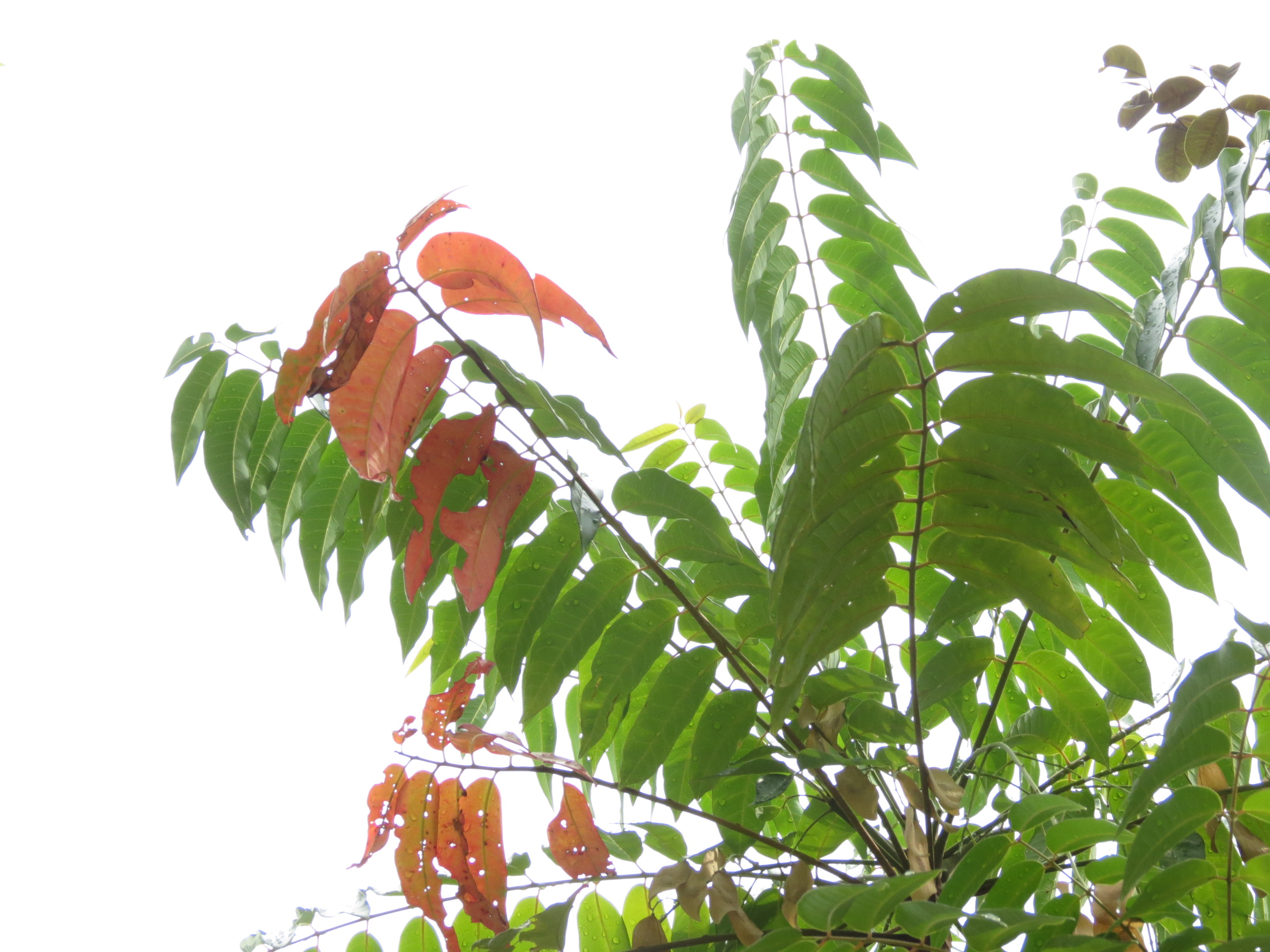 Ailanthus triphysa leaf